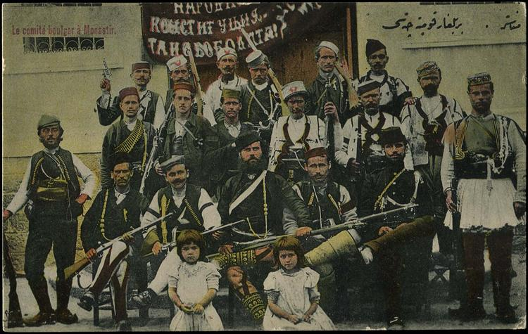 Young turks and Tane Nikolov cheta